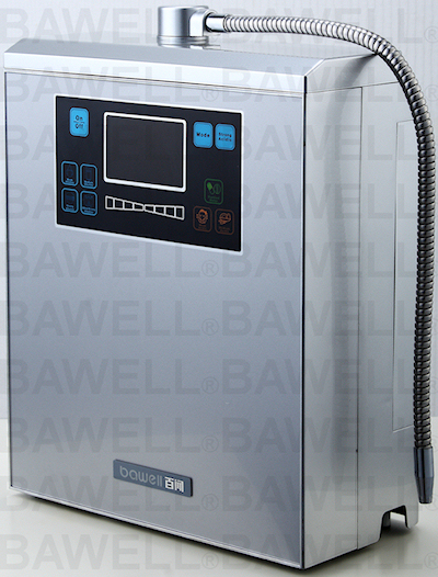 Water ionizer machine which creates alkaline ionized water and acidic ionized water